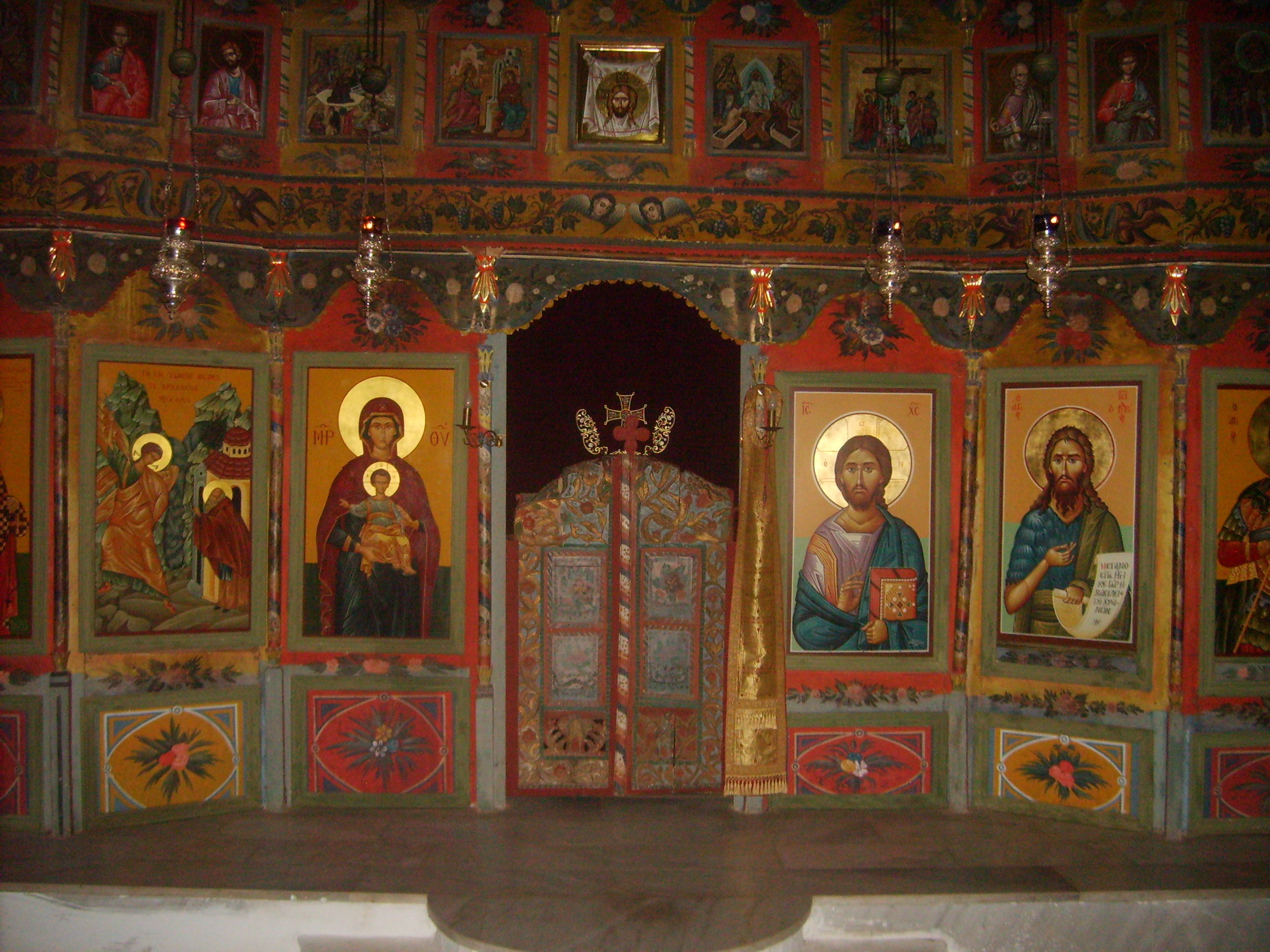 Iconostasis in ARchangelos Monastery, Almopia, Greece